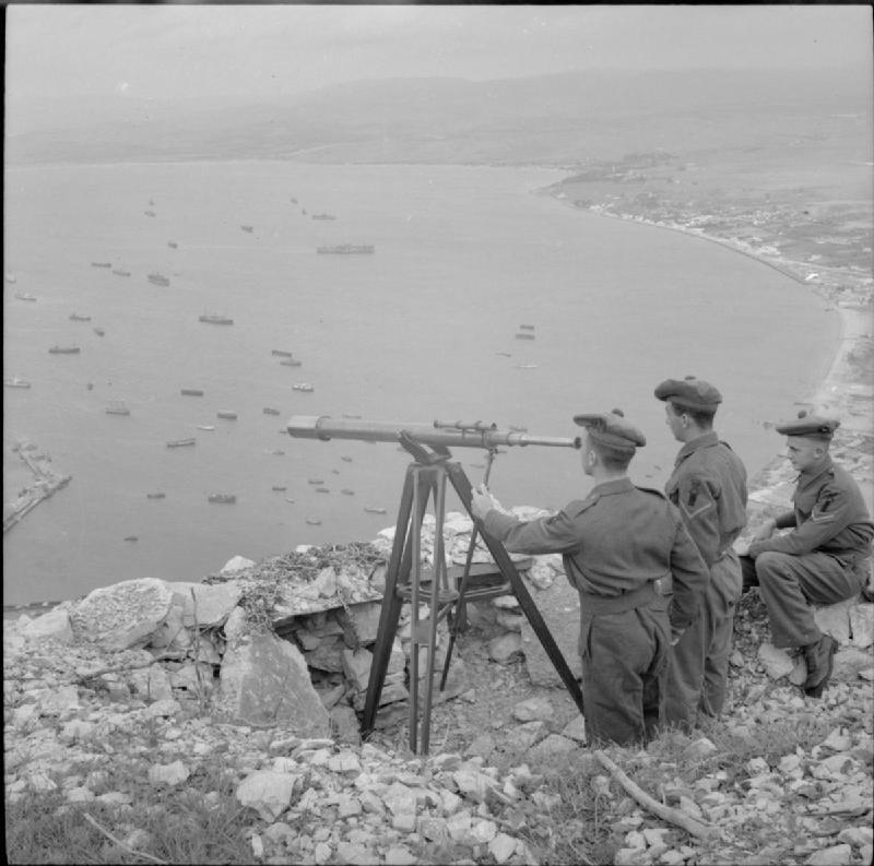 "Men of the Black Watch Regiment observing the scene below using a telescope from a vantage point on The Rock, 4 January 1942."